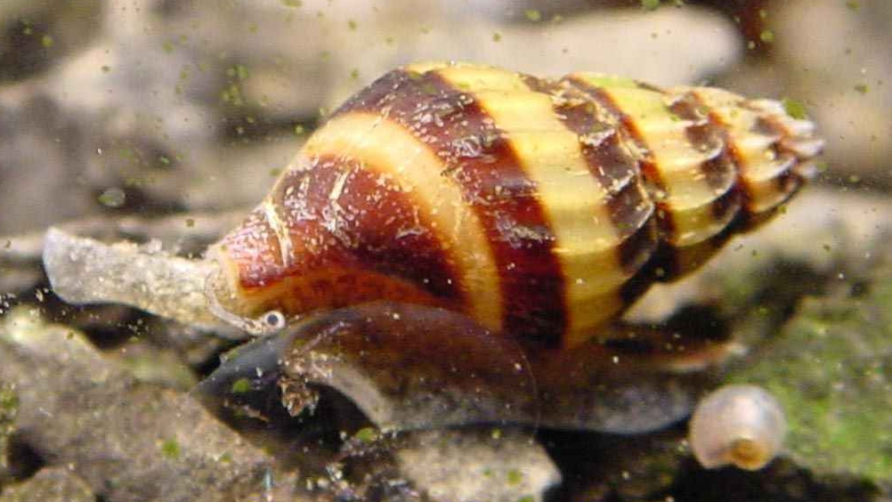 Clea helena, syn. Anentome helena, the Assassin Snail.